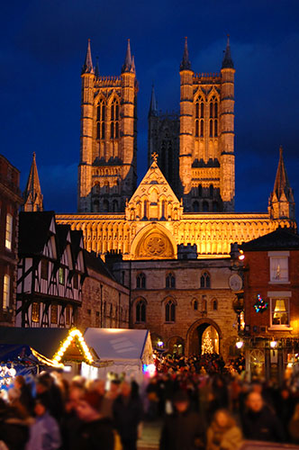 Christmas Market in Lincoln, December 2007